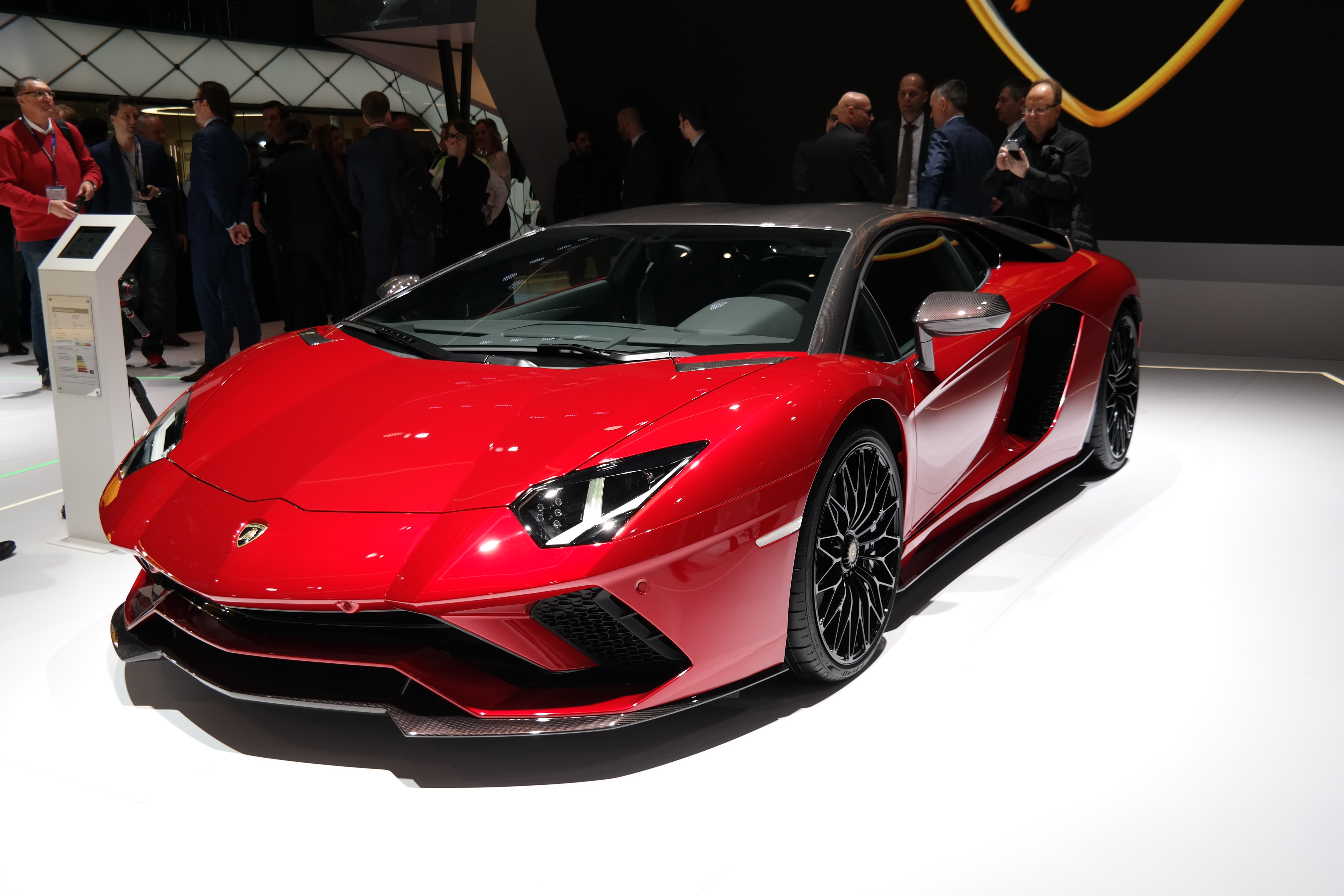 Geneva Motor Show 2018 (photo taken on the first press day)